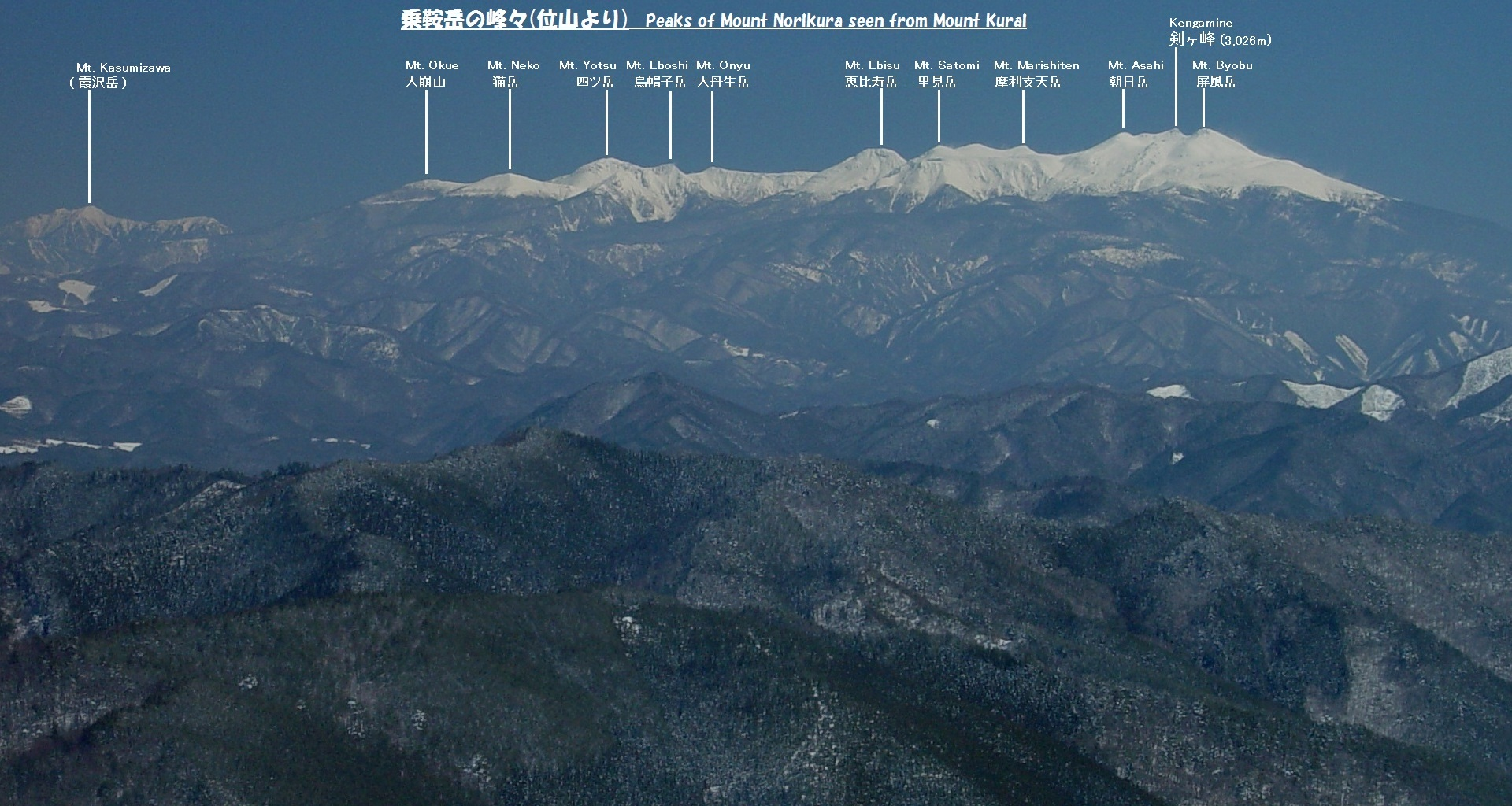 Peaks of Mount Norikura seen from Mount Kurai, in Takayama Gifu pref., Japan.